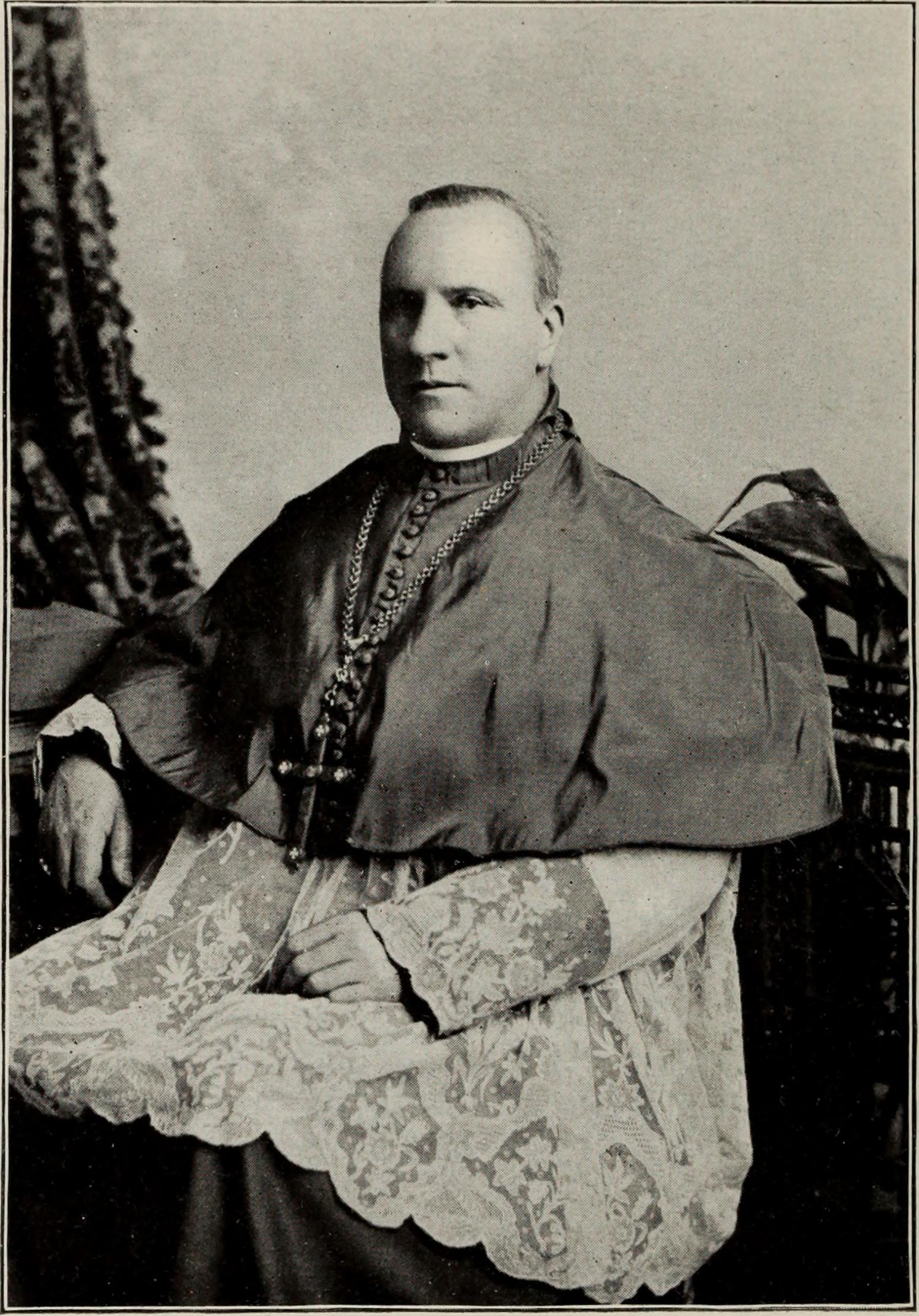 Title: Newfoundland at the beginning of the 20th century : a treatise of history and development Year: 1902 (1900s) Authors: Harvey, M. (Moses), 1820-1901 Subjects: George V, King of Great Britain, 1865-1936 Publisher: New York : The South Publishing Co. Text Appearing Before Image: Baptist and of the Virgin, in front of the cathedral. Theview from the cathedral grounds is very fine. Adjacent to itare the Bishops Palace, St. Bonaventure College and a con-vent. The whole group cost about half a million dollars. The Church of England Cathedral, about half way up theslope, was designed by Sir Gilbert Scott in an early Englishstyle, and was dedicated to St. John the Baptist. Before itsdestruction by the fire of 1892 it was one of the finest ecclesi-astical edifices in British America. In that fire it sufferedterribly, only the bare walls being left. The walls of thetransept were not seriously injured but the beautiful archeswere ruined. This portion of the cathedral has been roofedand the arches restored, and it is now used for services, butthe nave, which suffered more, has not yet been restored. On the Military Road, running along the crest of theridge, stands the Colonial Building, or House of Parliament,containing chambers for the two branches of the Legislature, Text Appearing After Image: Right Rev. M. F. Howley, D. D.R. C. Bishop, St. Johns.